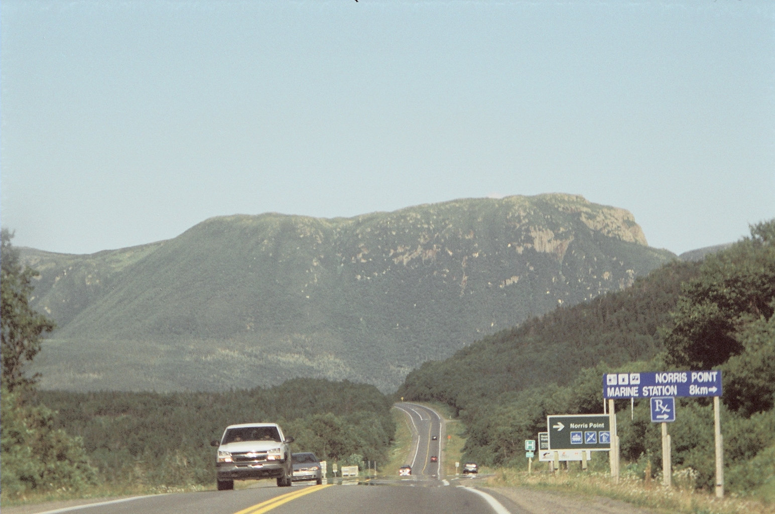 West coast of Newfoundland including Port au Port penensula, to Port aux Chois and Long Range Mountains. Stephenville and Corner Brook. Newfoundland and Labrador Route 430